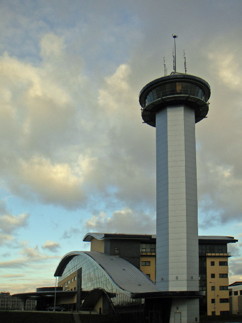 Aberdeen Exhibition & Conference Centre (and Tower) A slightly different angle of the AECC (Aberdeen Exhibition and Conference Centre) showing the Viewing Platform